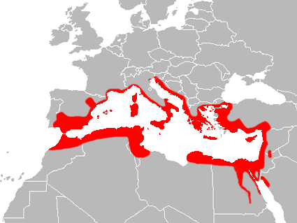 Hemidactylus turcicus range map with national borders.